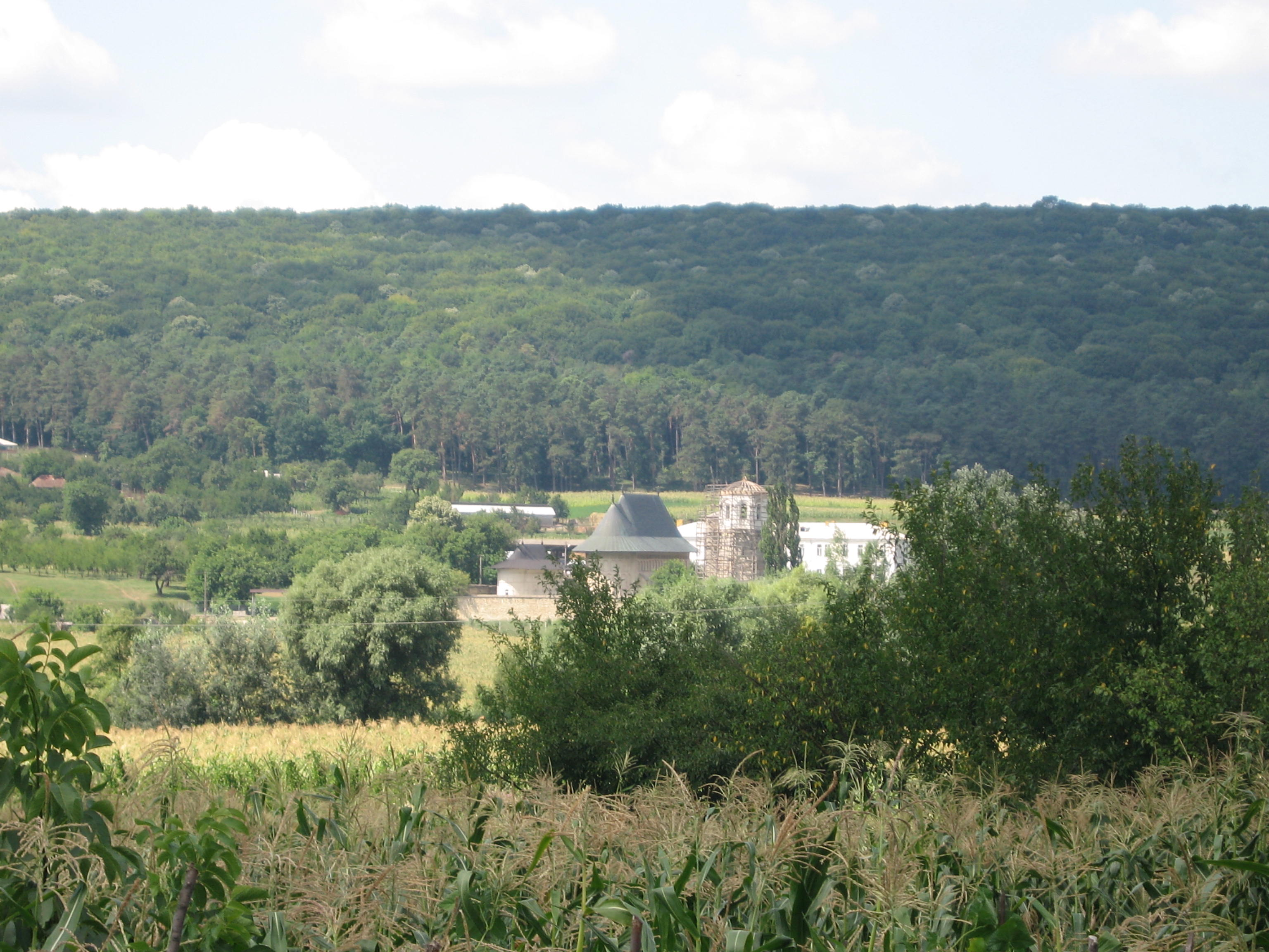 Mănăstirea Dobrovăţ